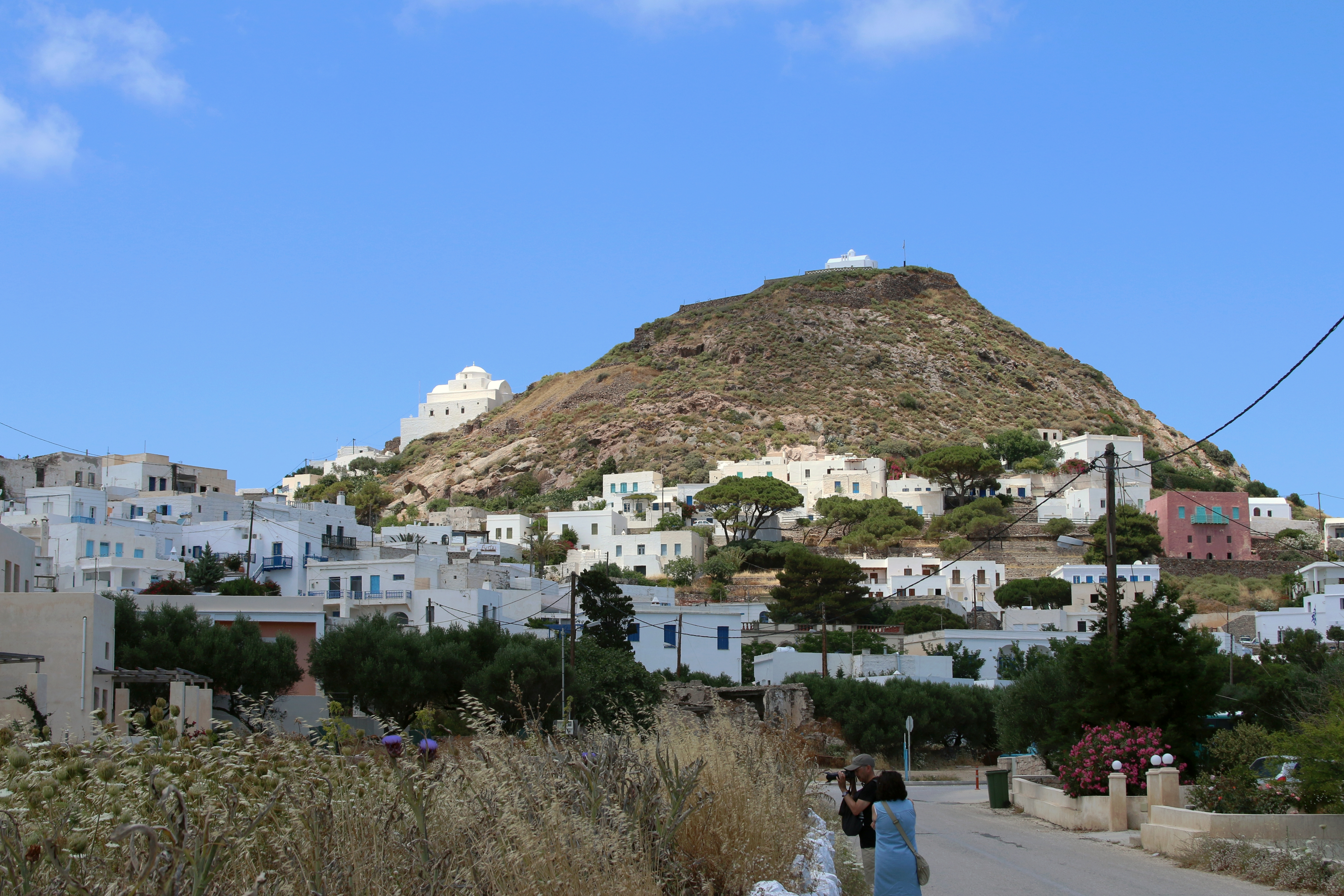 Plaka on Milos, by way from the excavations.